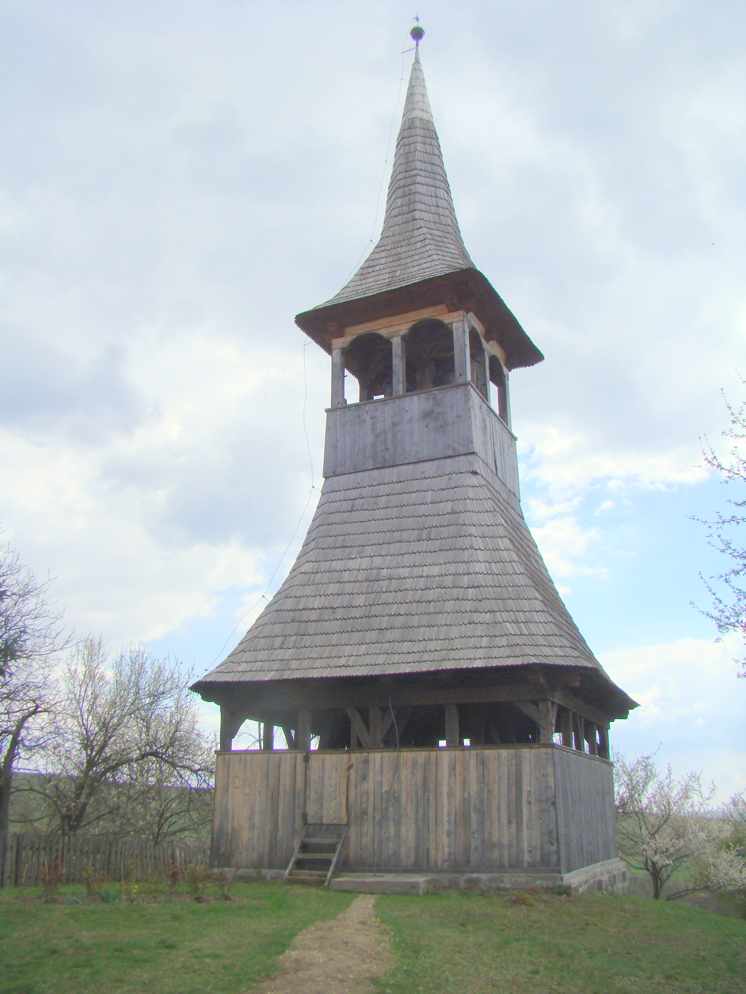 Reformed church in Păltiniș, Harghita county, Romania